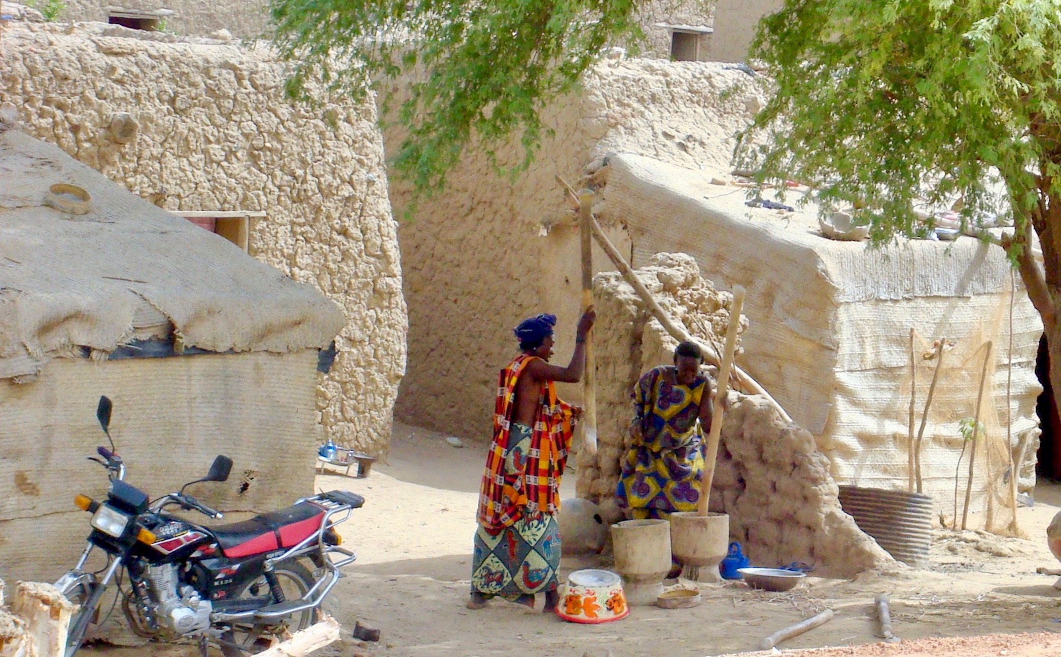 Women in Timbuktu pounding grain This is an image of "African people at work" from Mali